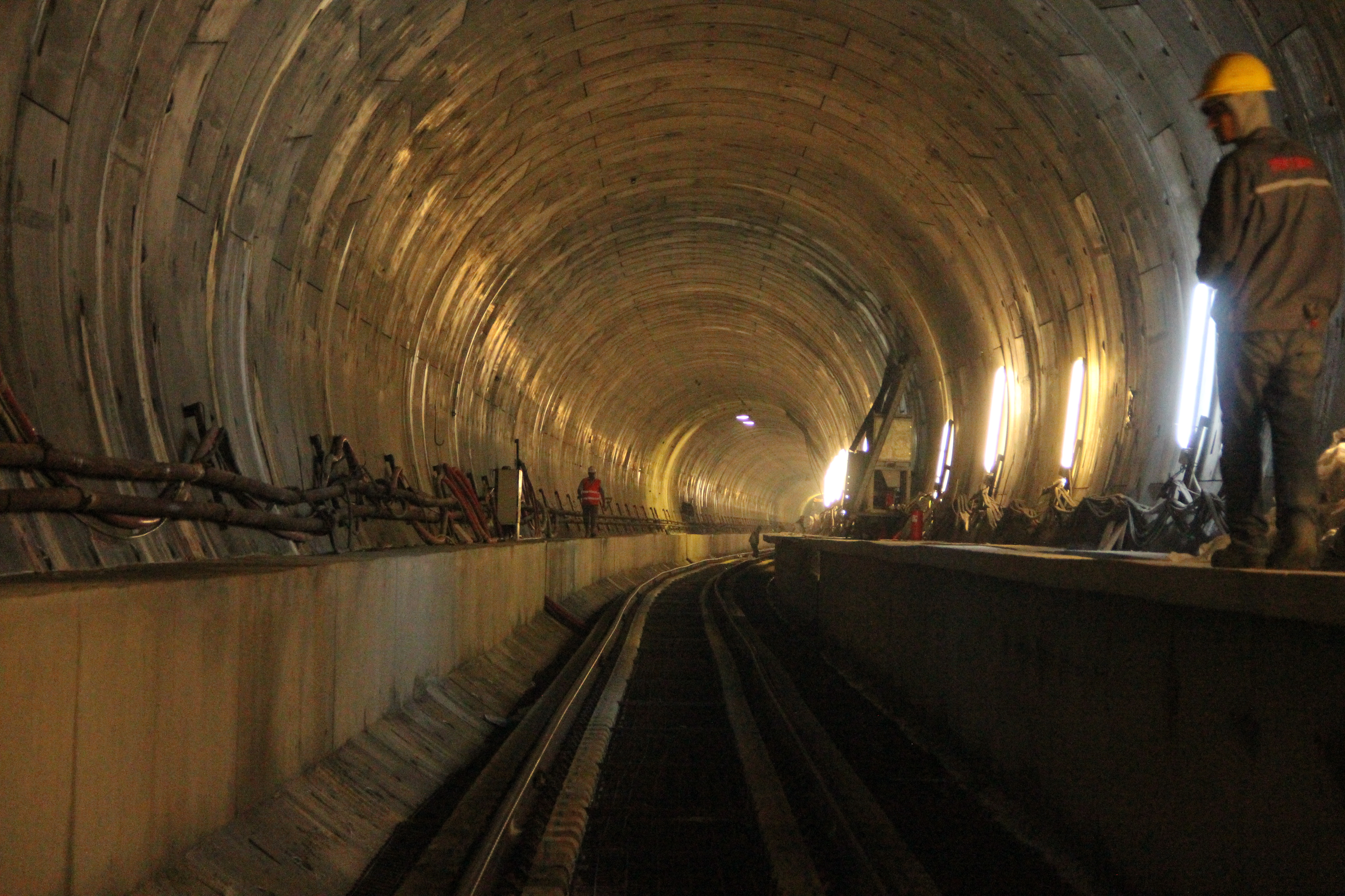 Marmaray Project